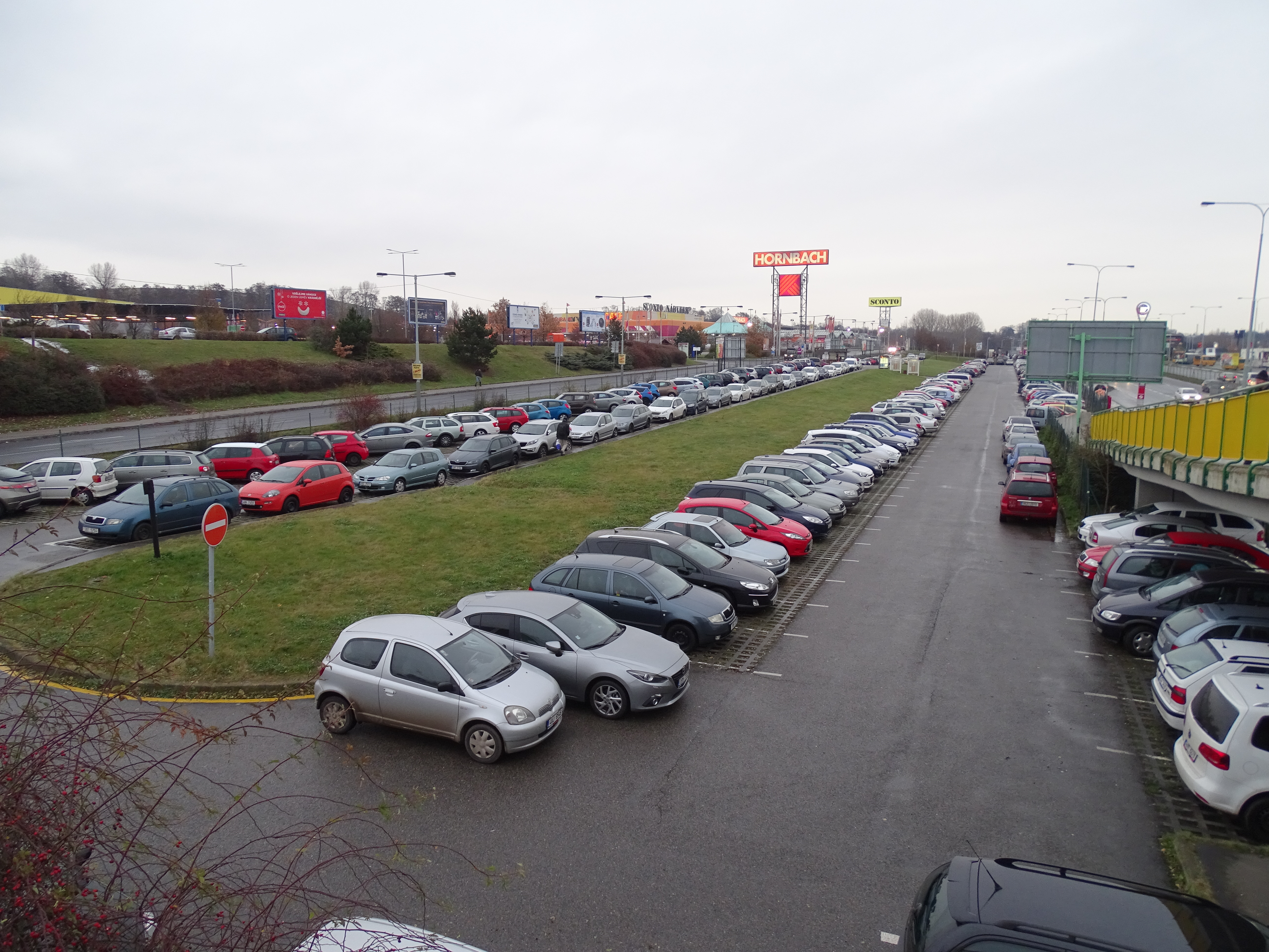 Prague-Horní Počernice, Czechia. Černý Most I P+R car park.